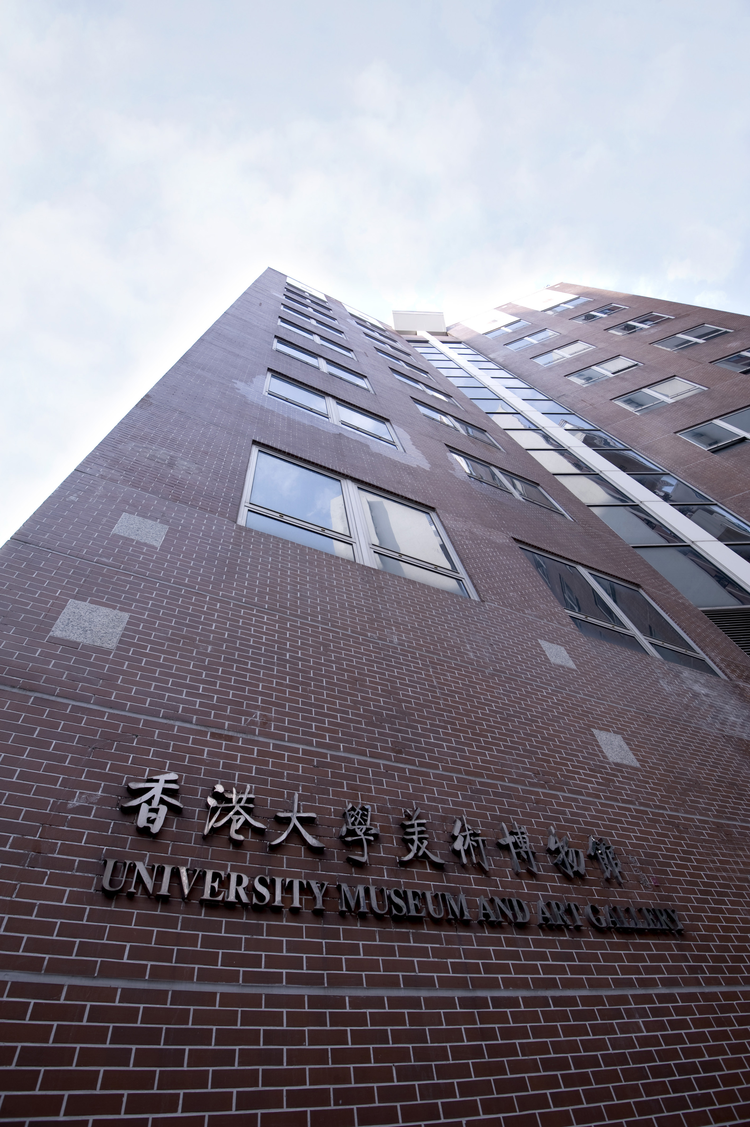 Exterior of T.T Tsui Building